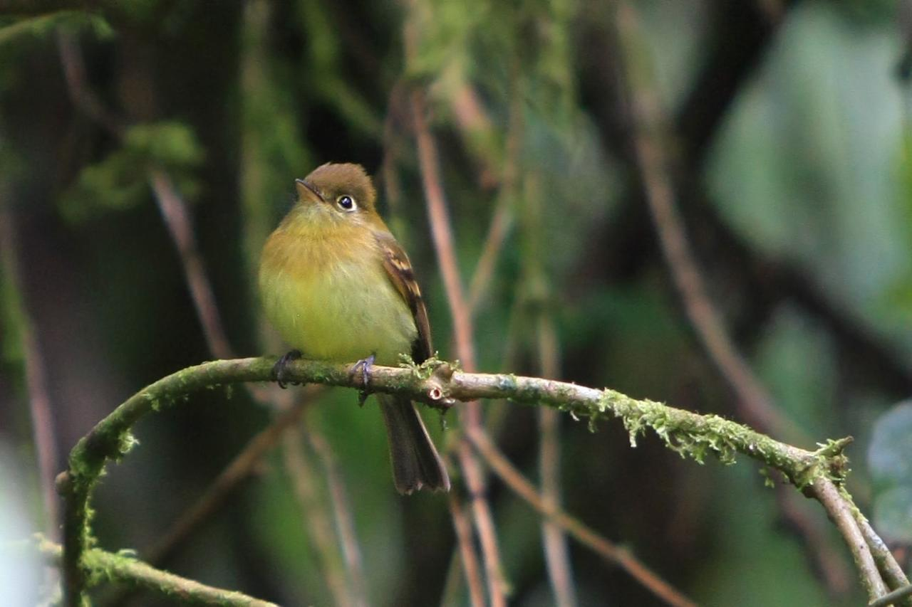 Empidonax flavescens — a Yellowish Flycatcher. In the Monteverde Cloud Forest Reserve, Cordillera de Tilarán, Puntarenas Province, Costa Rica.